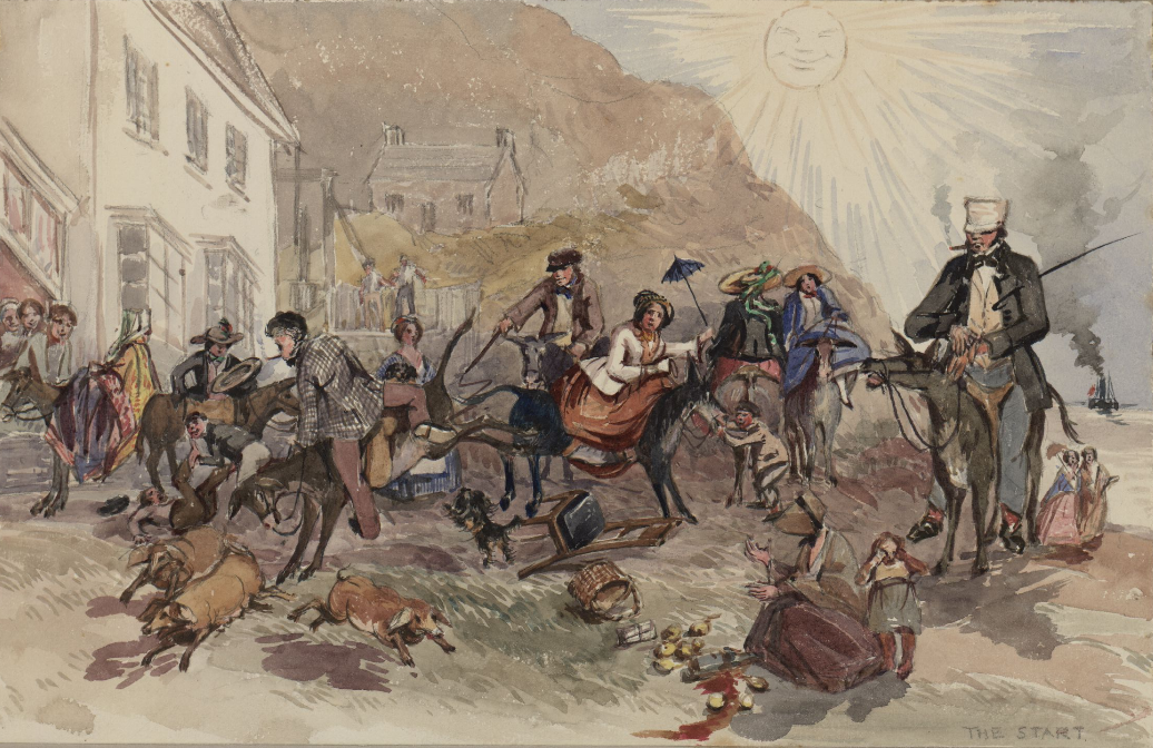 'The Great Orme's Head' - a comic narrative of a group exploring the Head and another comic narrative of 'Llandudno Races'